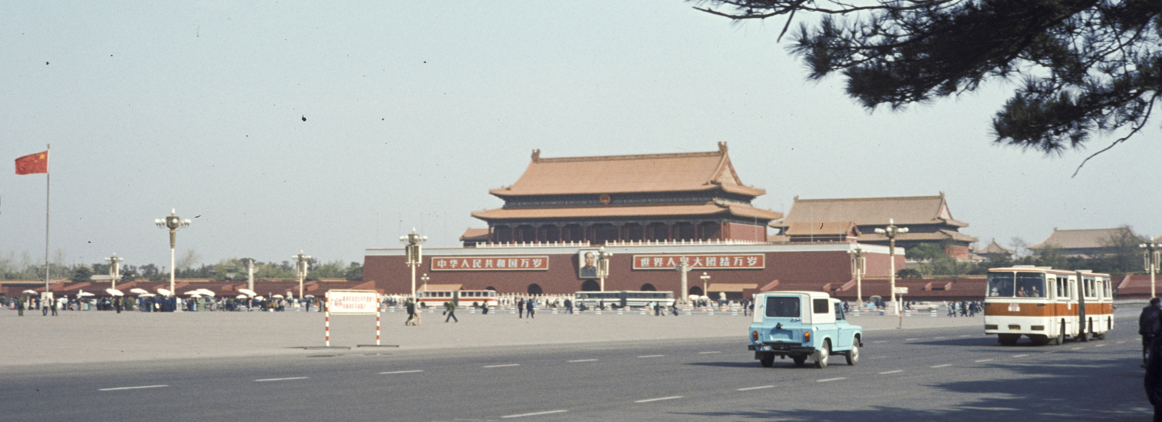 Tian'anmen Square in 1982 with three buses